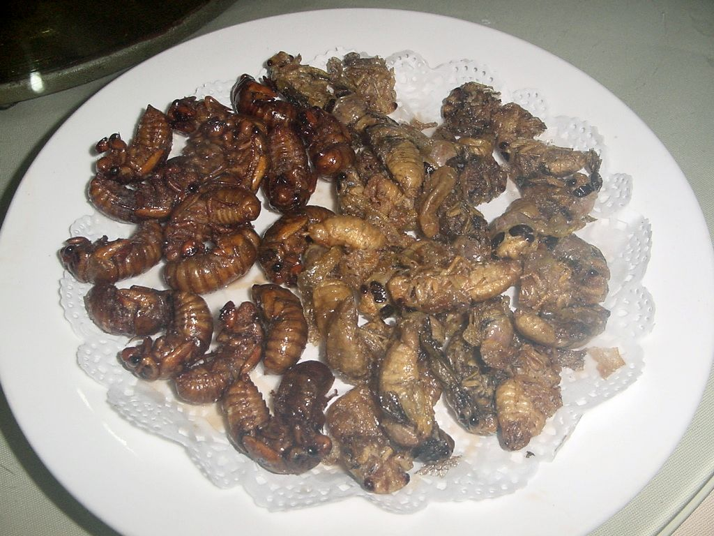 Deep fried two different stage of cicada，Cryptotympana atrata，at a restaurant in Weifang, Shandong, China